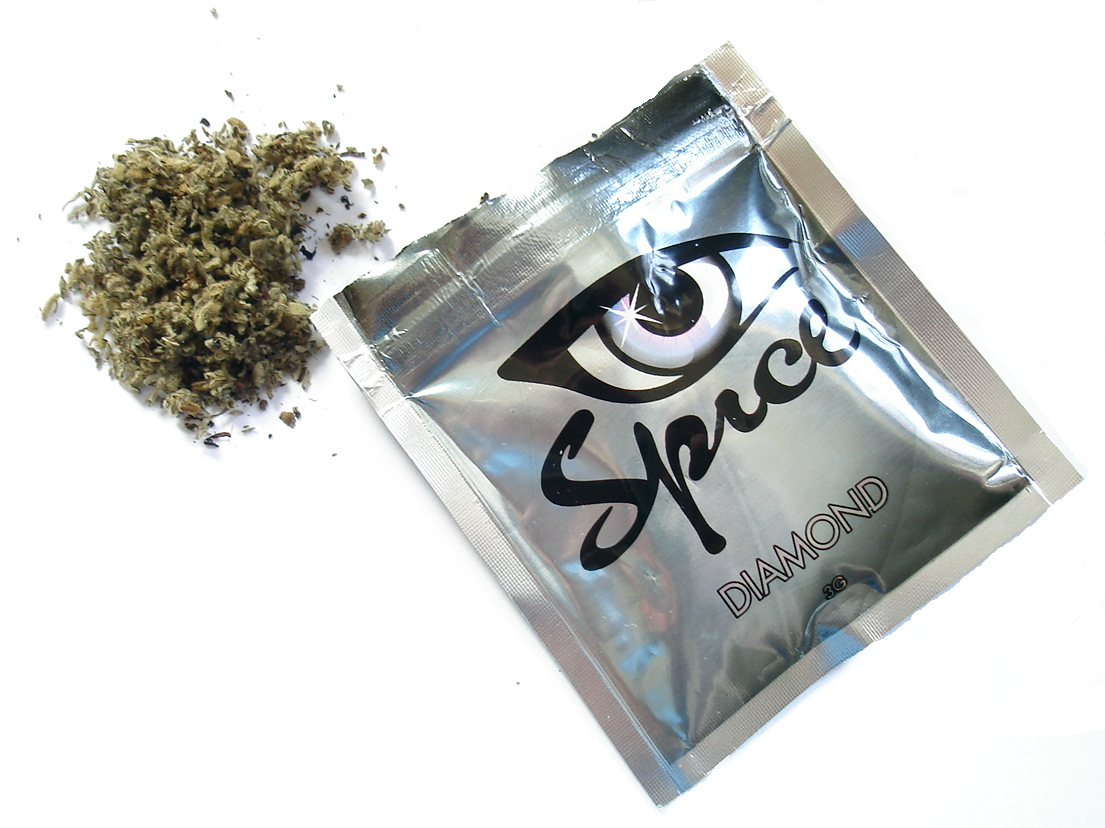 Spice was originally sold as an incense, but has now swept the military community with controversy as a ‘legal’ designer drug. However, Marine Corps Order 5355.1, issued Jan. 27, directly prohibits the use, distribution, sale and possession of it and others like it.